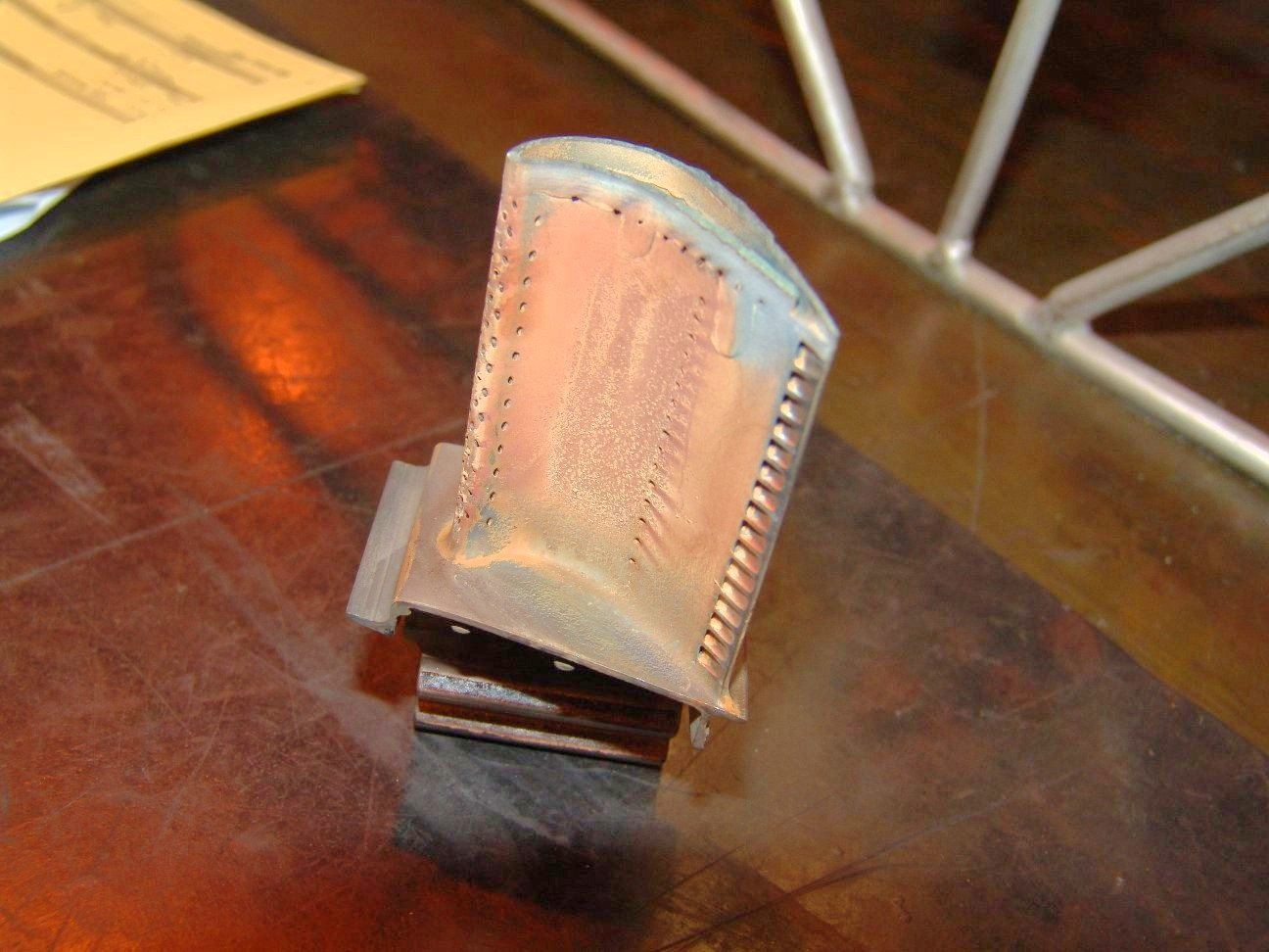 CFM56-3 High Pressure Turbine (HPT) blade.